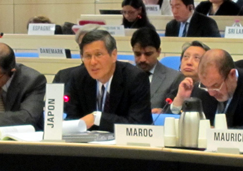 Shigeru Omi, Member of the Executive Board, World Health Organization, attended a session of the Executive Board, World Health Organization with Masato Mugitani, Deputy Director-General for Global Health, Ministry of Health, Labour and Welfare, at the Headquarters of the World Health Organization in Geneva Municipality, Geneva Canton on January, 2011.